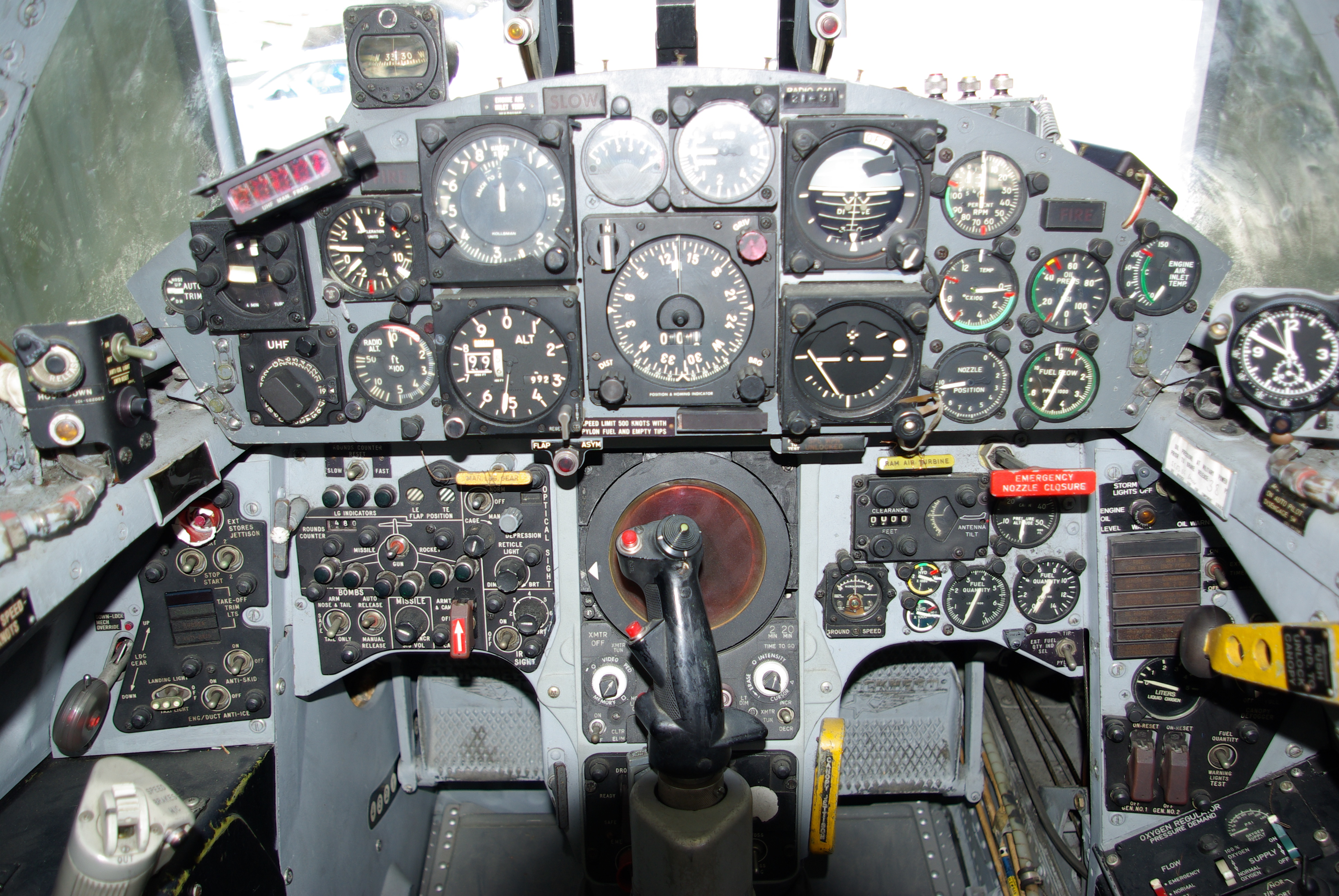 Dashboard of the Lockheed F-104 Starfighter being restored to the musée des ailes anciennes (Toulouse, France).